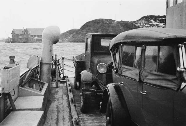 Salhusfærgen in Karmsundet